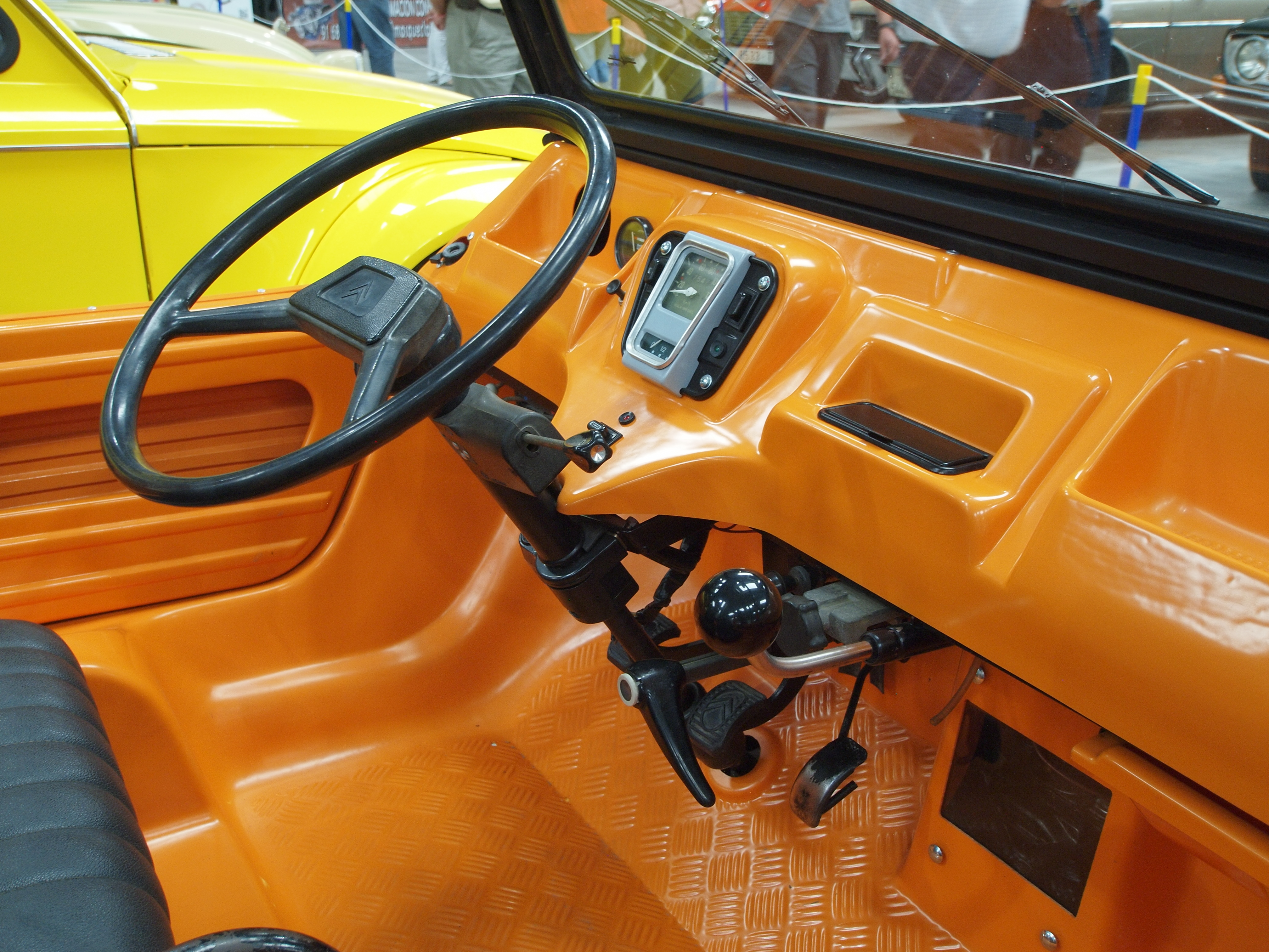 Cockpit of a Citroën Mehari (year 1980), at exhibition in the I Classic Cars Exposition, Benavente (Zamora, Spain, 2012)